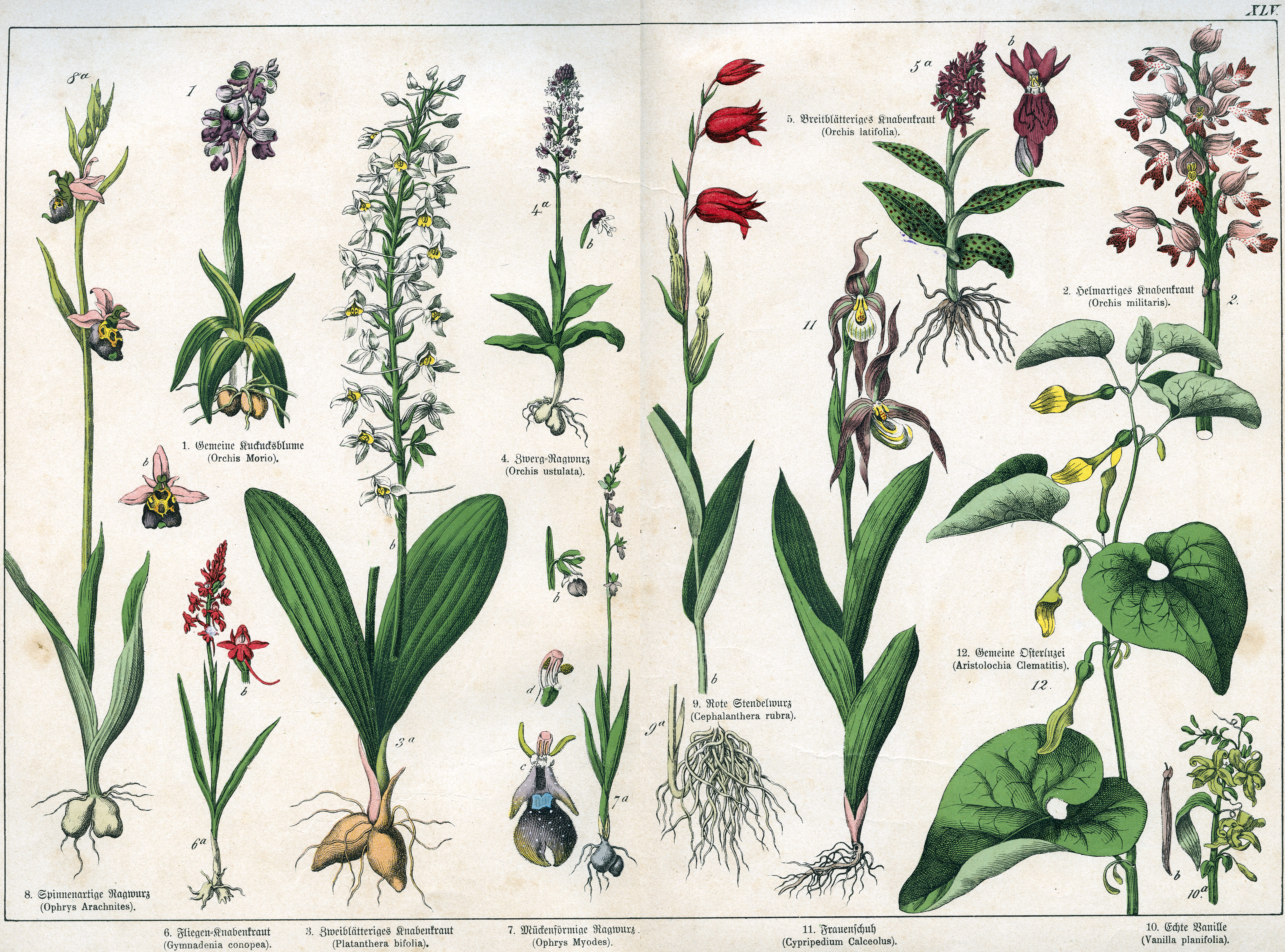 illustration from «Naturgeschichte des Pflanzenreichs», table XLV 5. Orchis latifolia = Dactylorhiza majalis 7. Ophrys Myodes = Ophrys insectifera 8. Ophrys Arachnites = Ophrys apifera